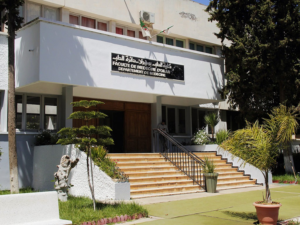 Main access to the medicine faculty of Oran